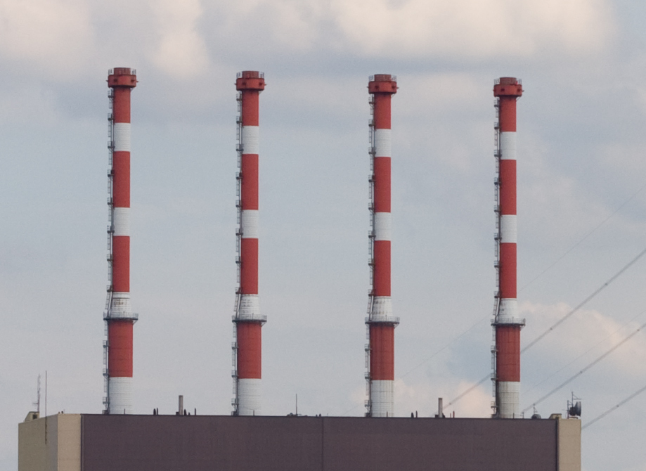 Chimneys of the Tracy thermal generating station in Quebec.